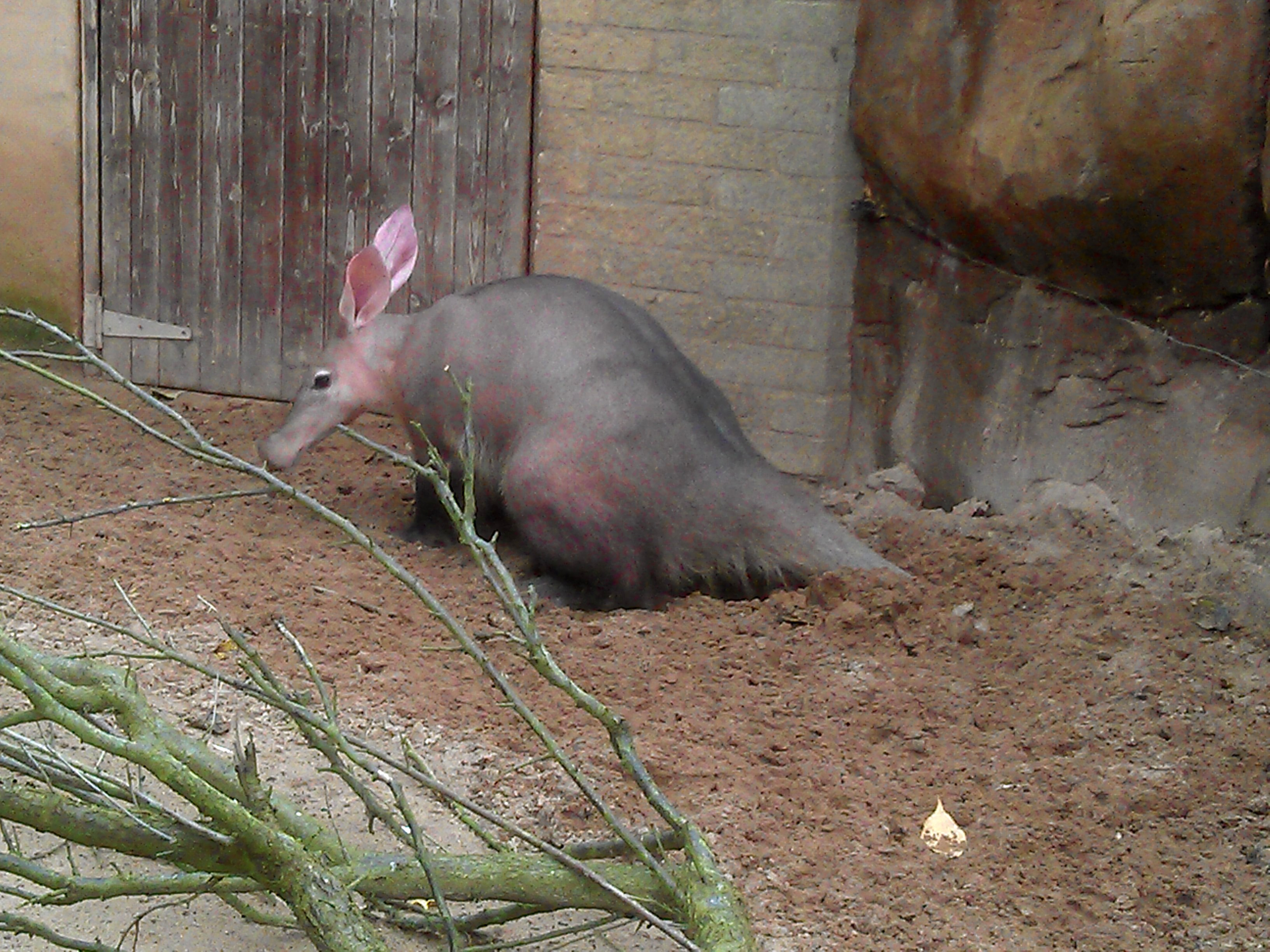 Aardvark at Blackpool Zoo